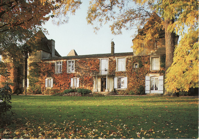 Parc Carbonnieux